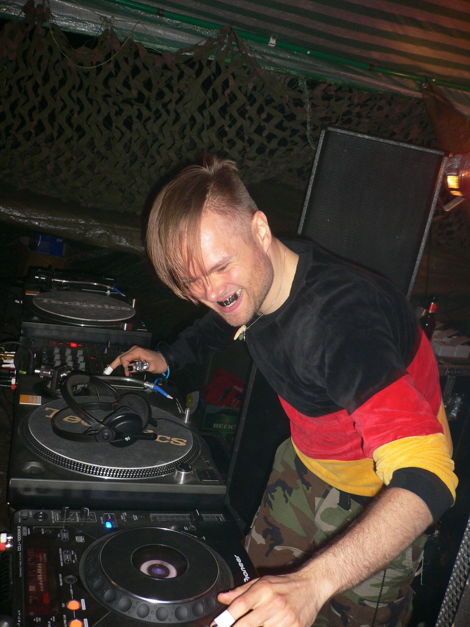 The Panacea DJ